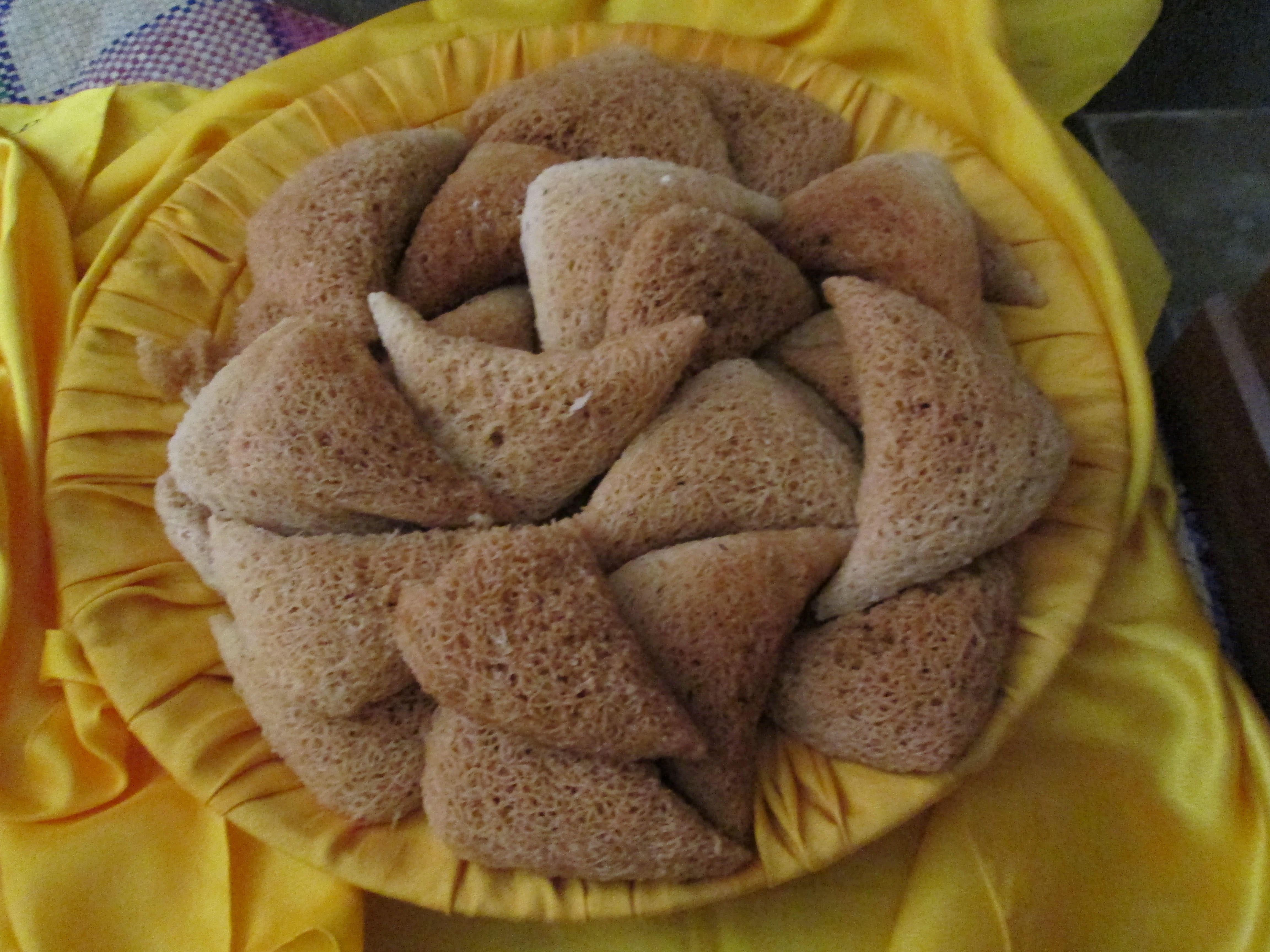 Keukaraih, a kind of Acehnese cakes